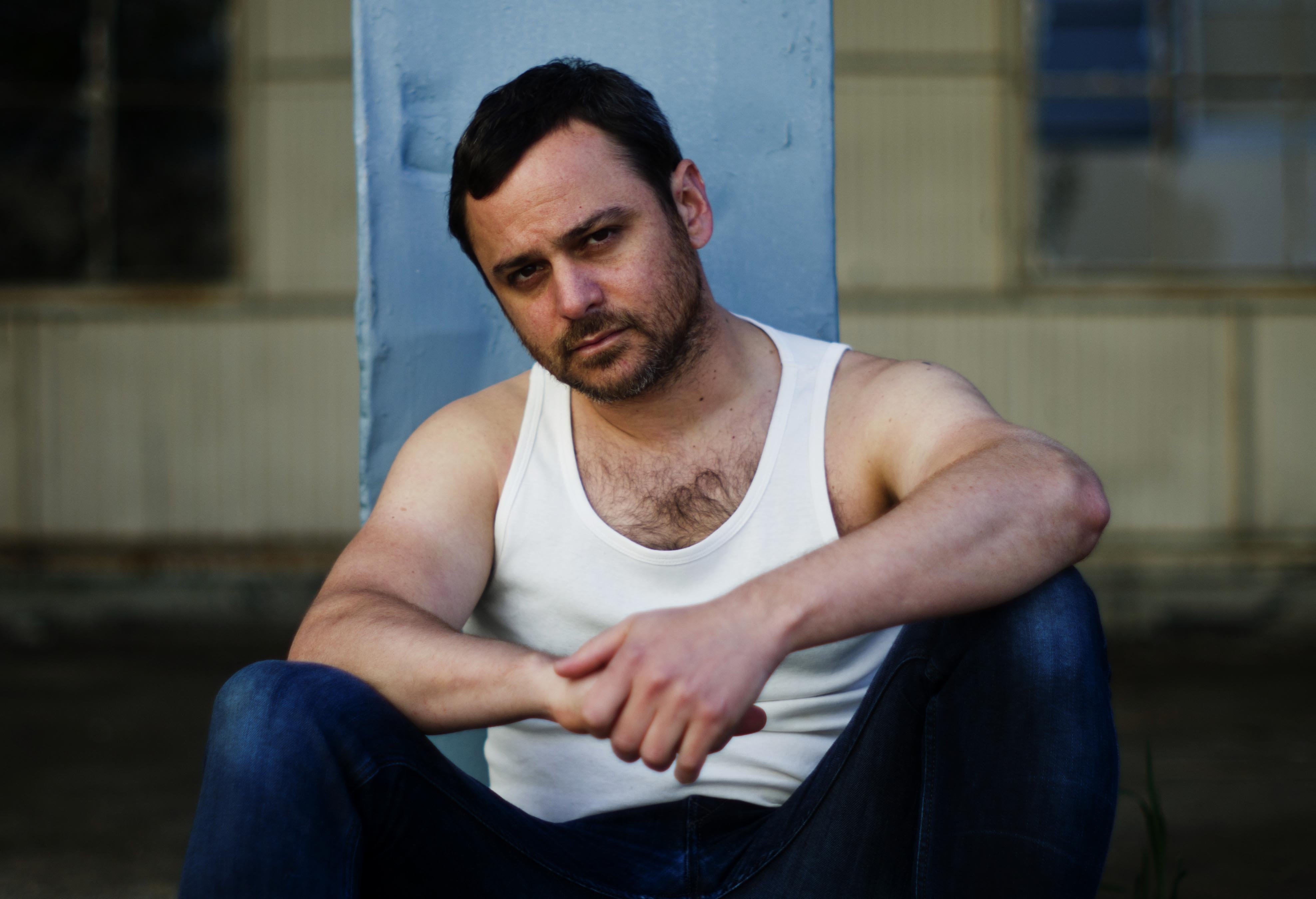 Luke Anthony - 2013